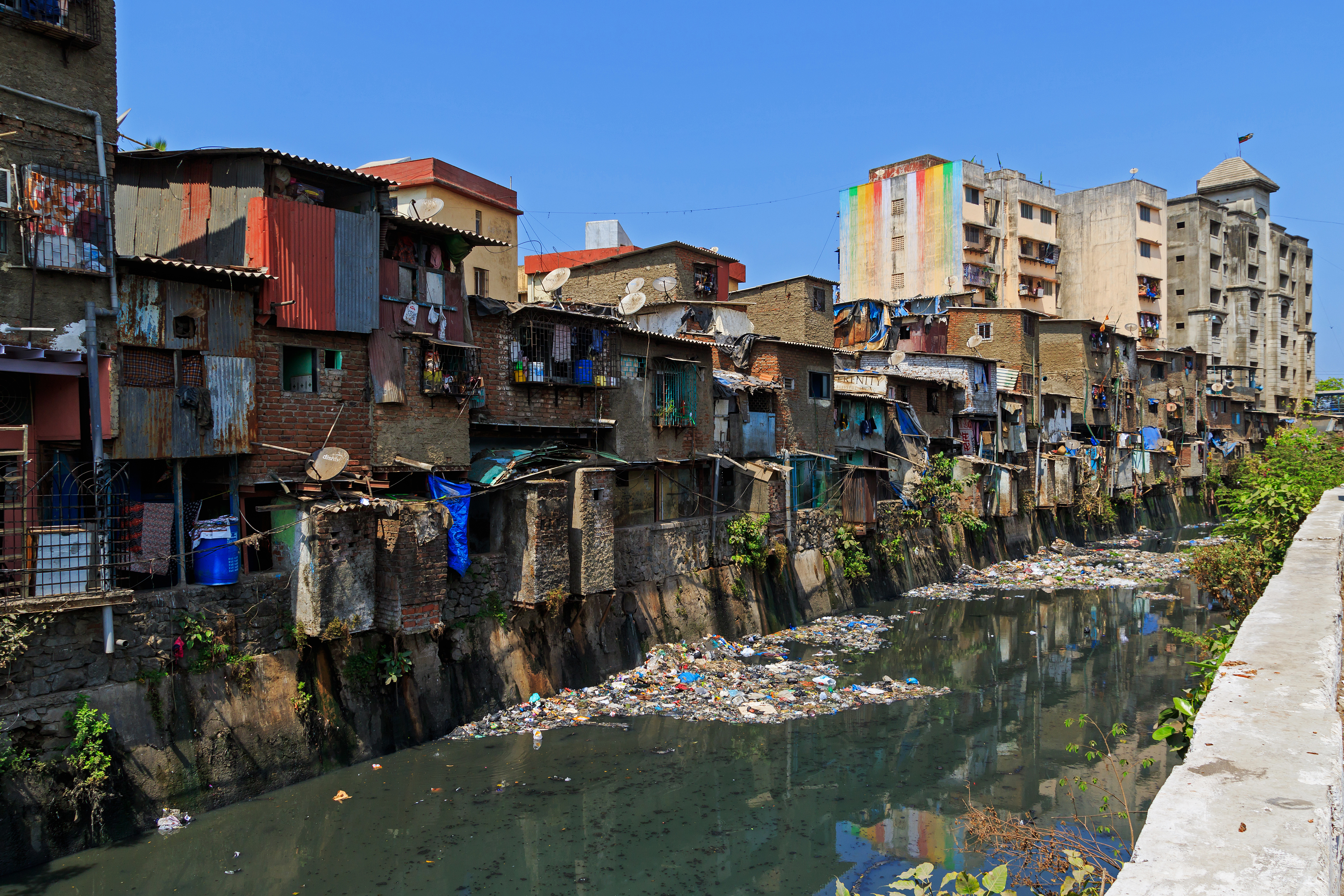 Dharavi settlement near Mahim Junction in Mumbai, India